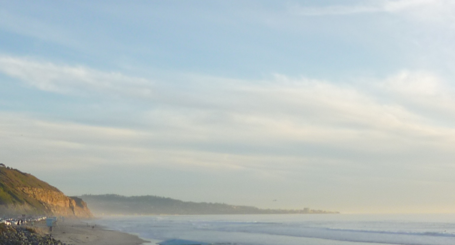 Mount Soledad, seen from Torrey Pines State Beach, San Diego, California